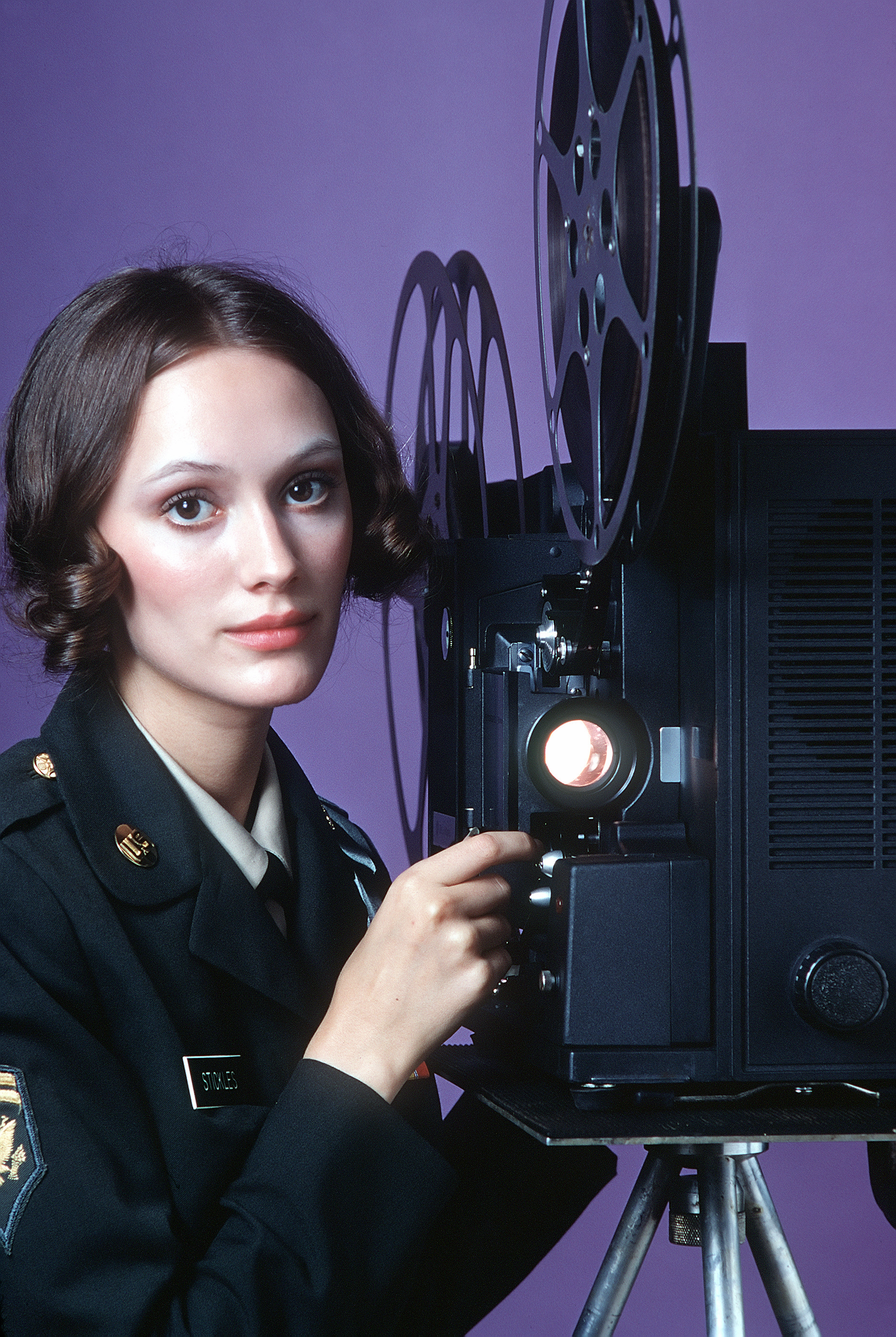 A female U.S. Army AV technician operates a 16 mm film projector